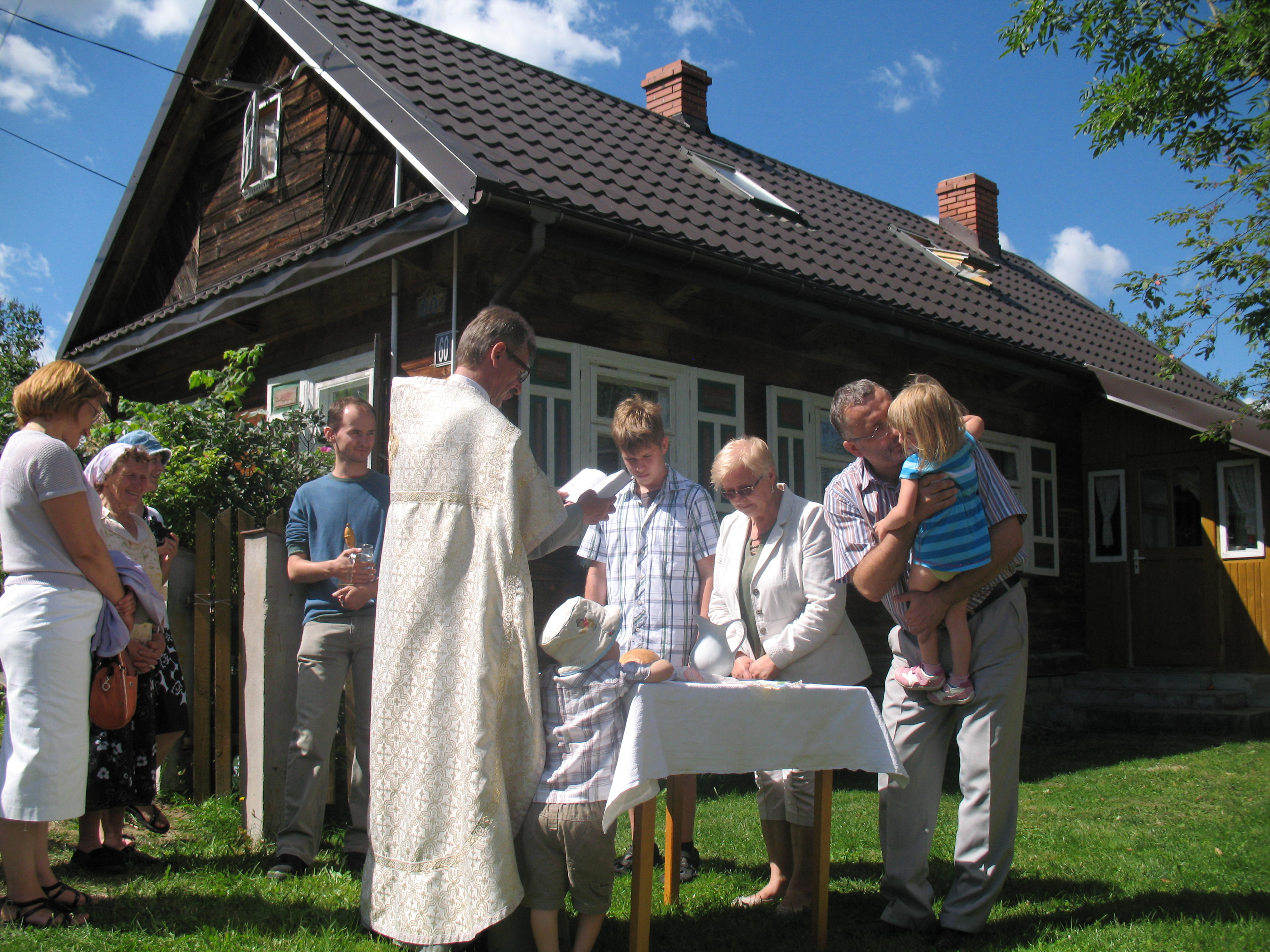 Procession in Soce.